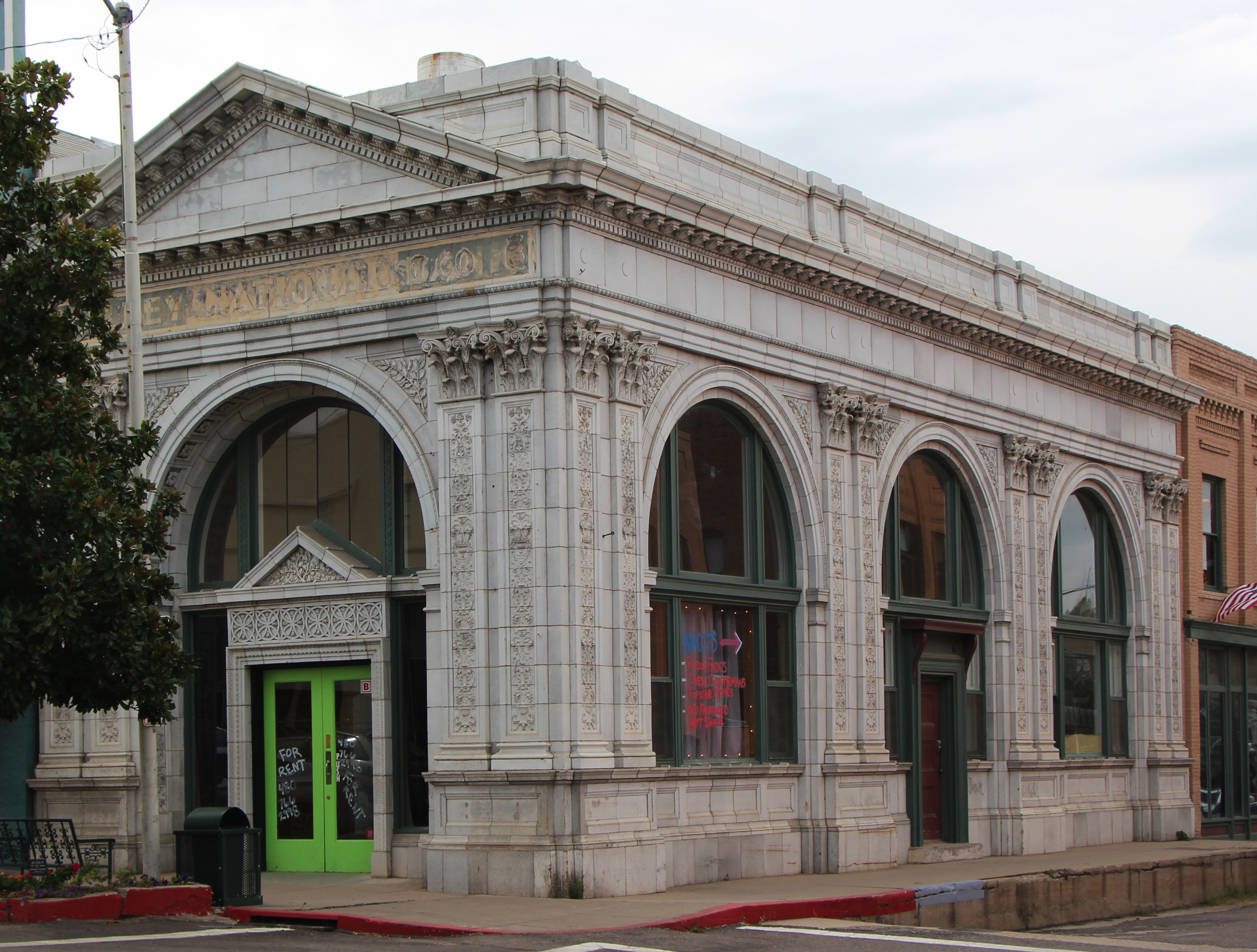 Valley National Bank, southwest corner of Mesquite Street and Broad Street, Globe, AZ